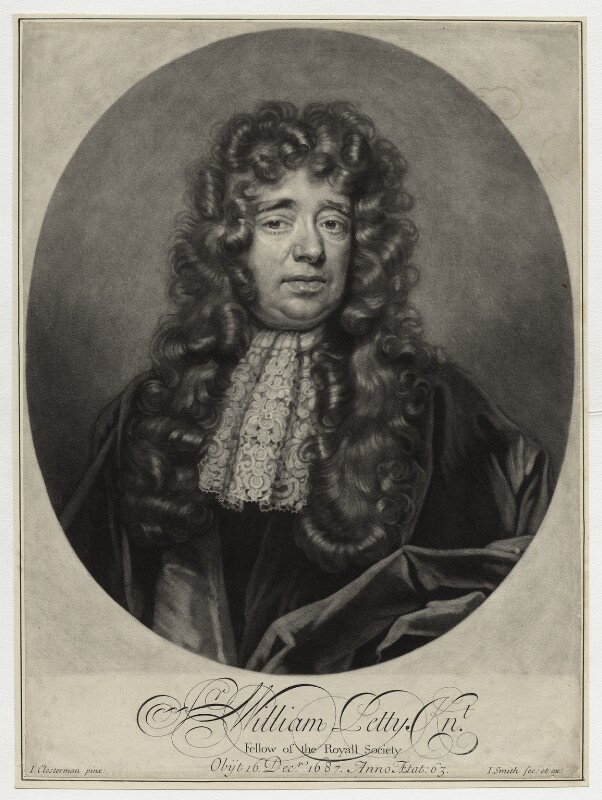 William Petty (1623-1687)